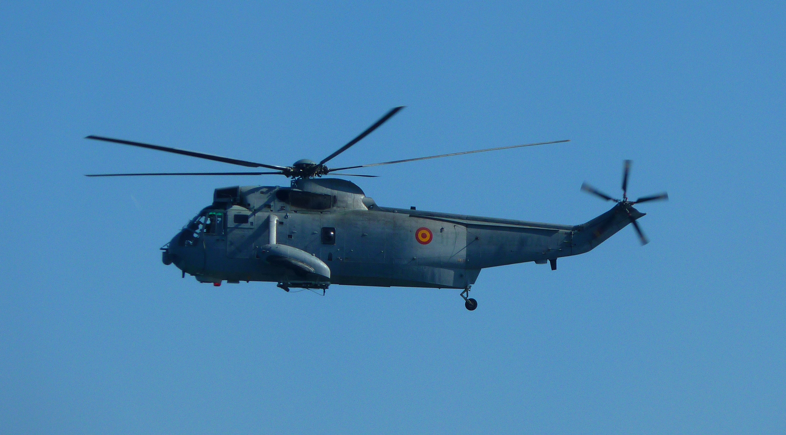 Spanish Navy SH-3D.